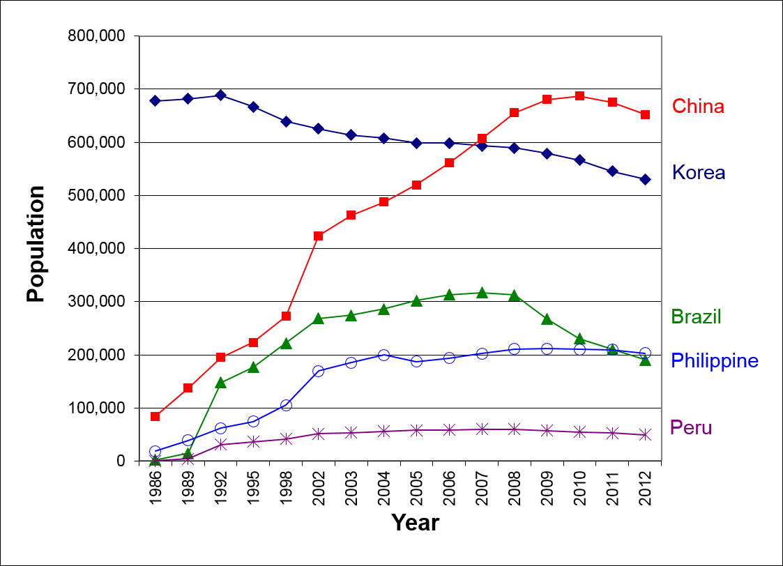 Transition of Numbers of Registered Foreigners in Japan from 5 Major Nationalities